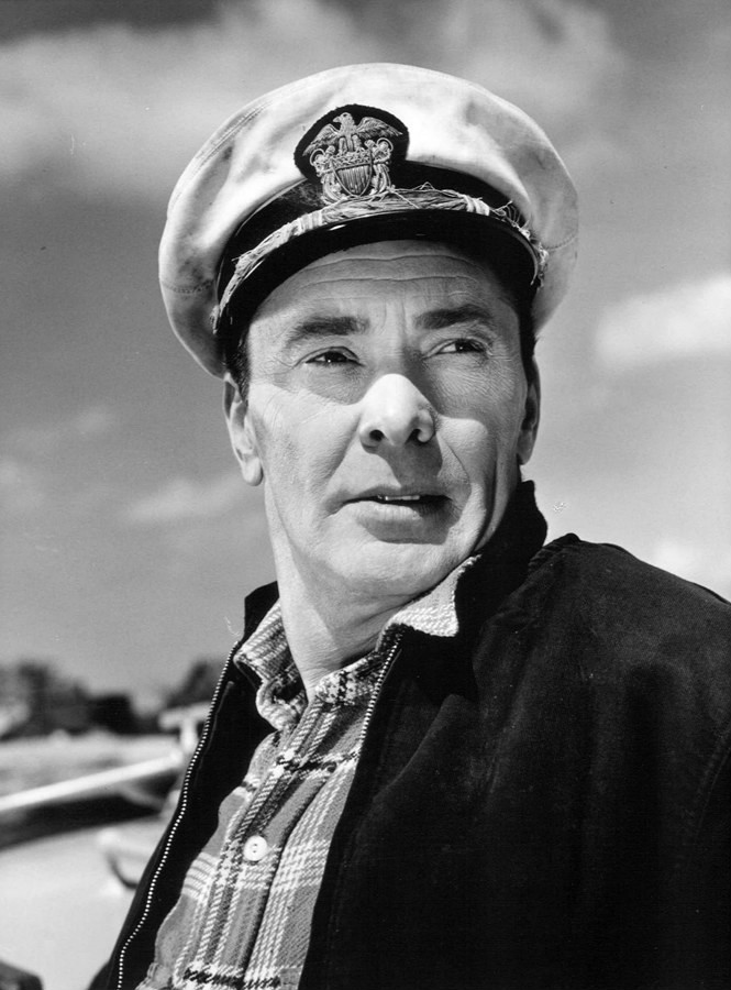 Photo of Barry Sullivan from the television program Harbourmaster.